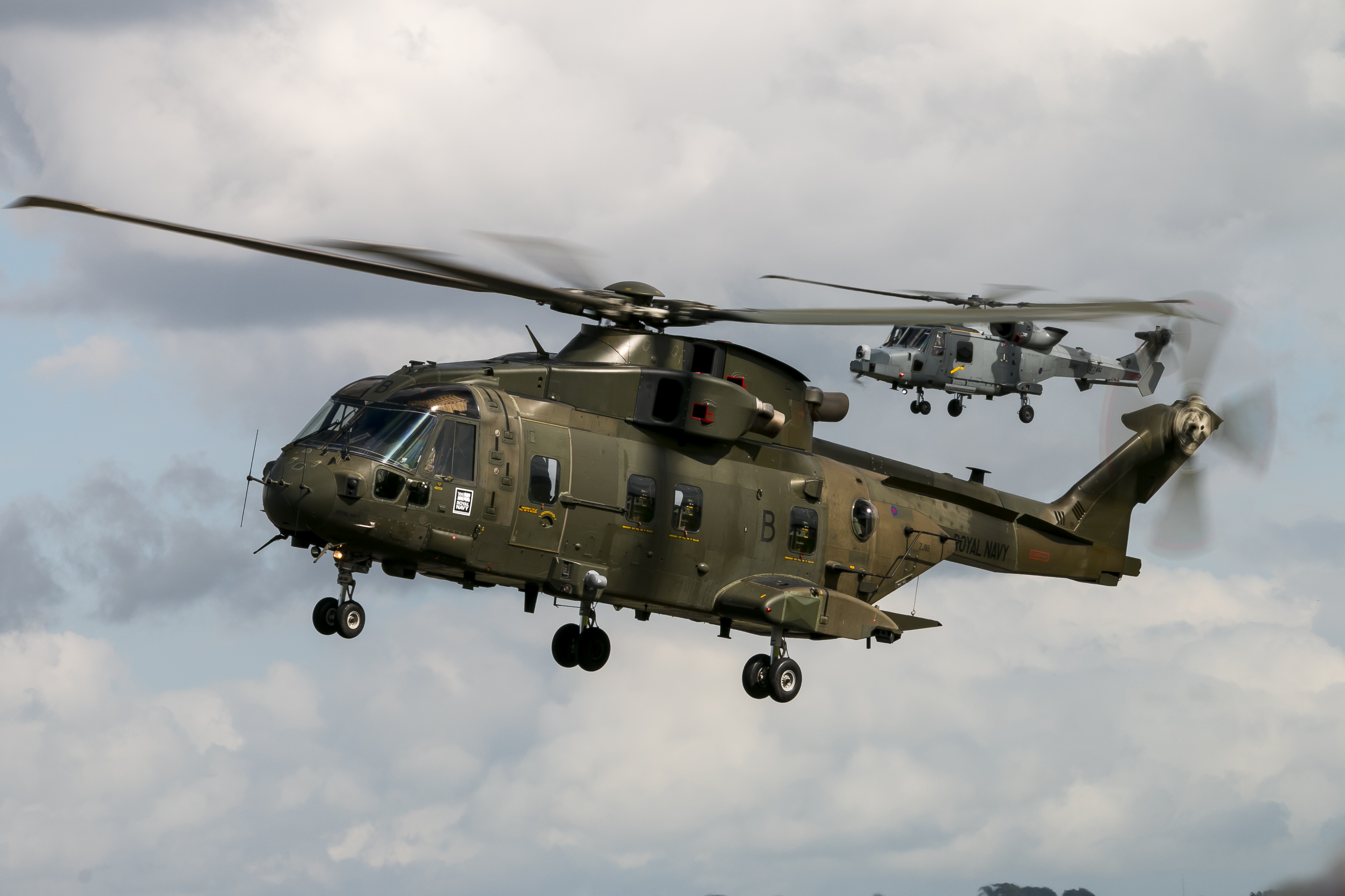 Royal Navy Commando Helicopter Force Merlin HC3/3A, British Army Wildcat AH1